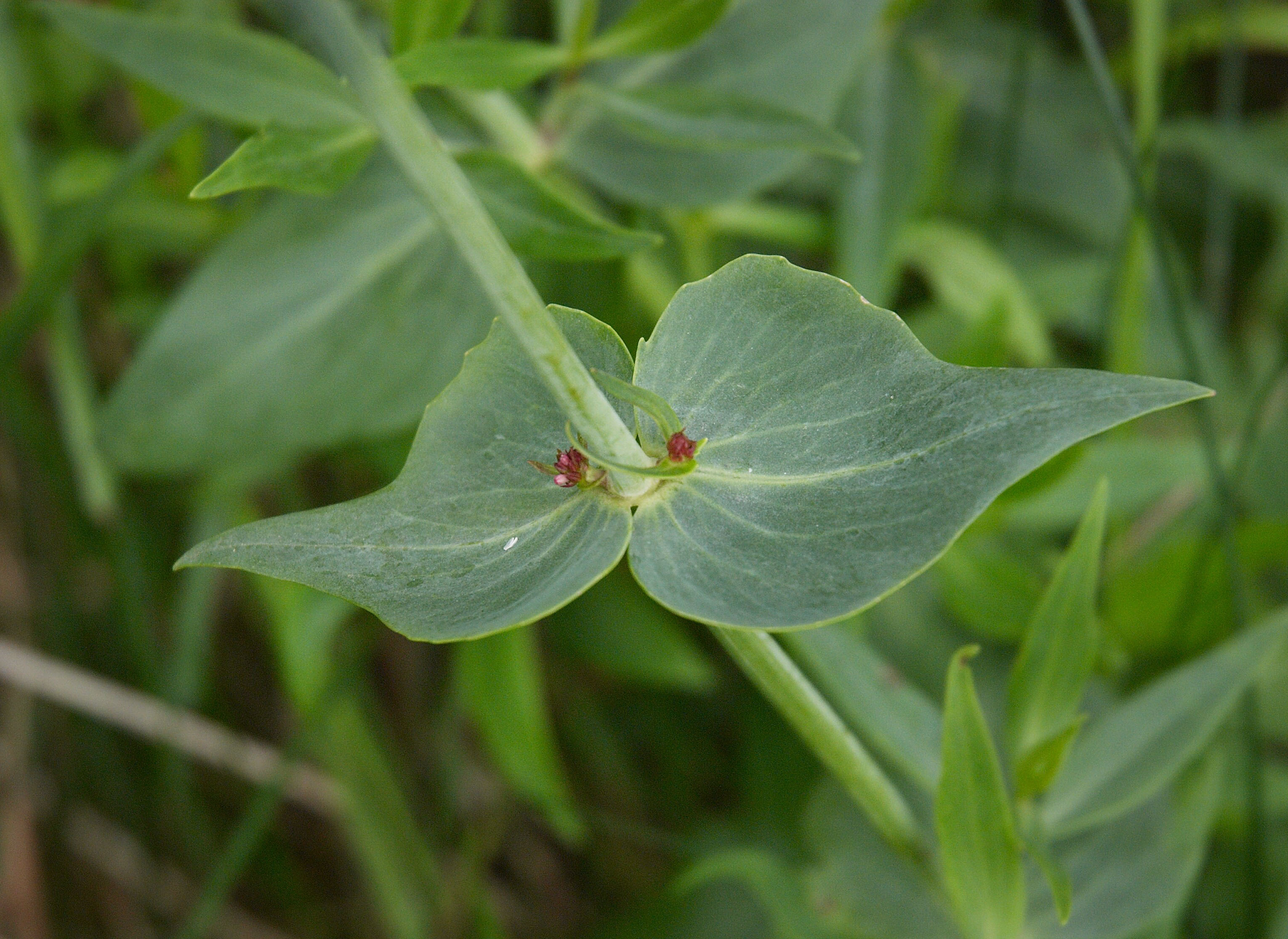 Red Valerian